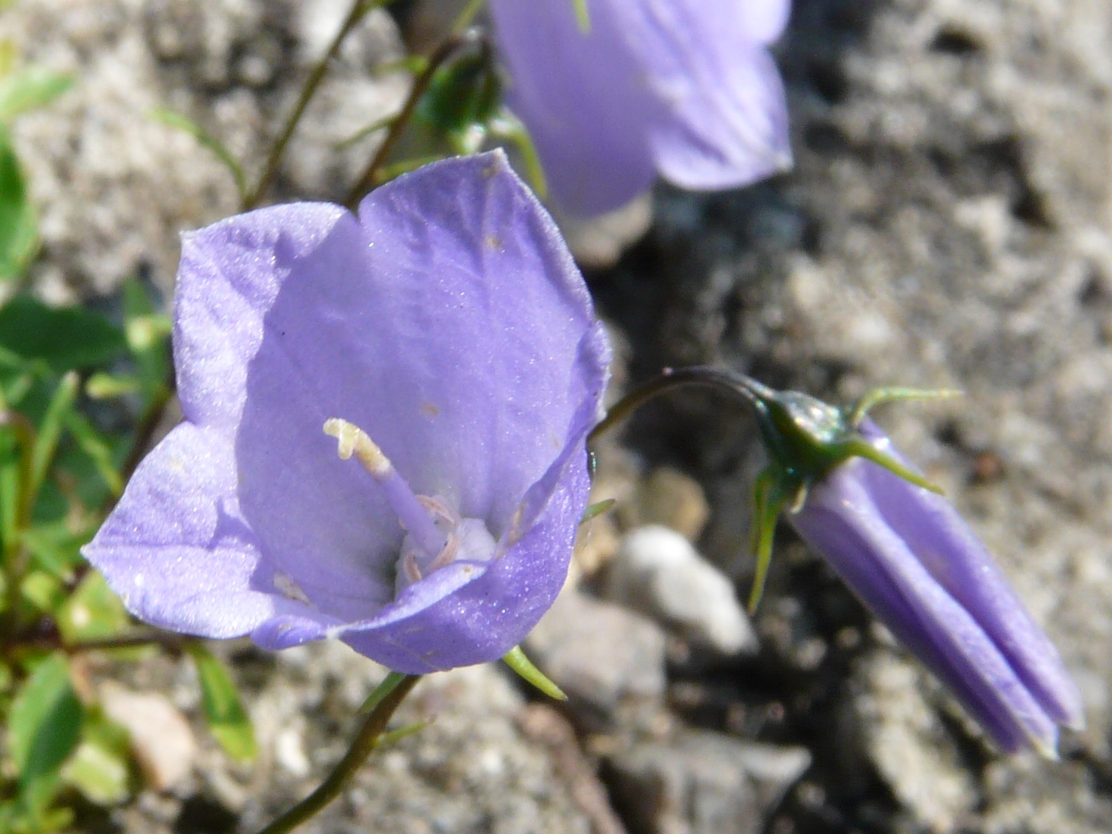 Campanula cochleariifolia (Botanical Gardens Utrecht)